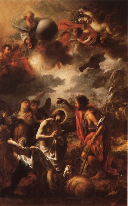 Petr Brandl: Christening of Jesus by John Baptist, Manětín Czech Republic